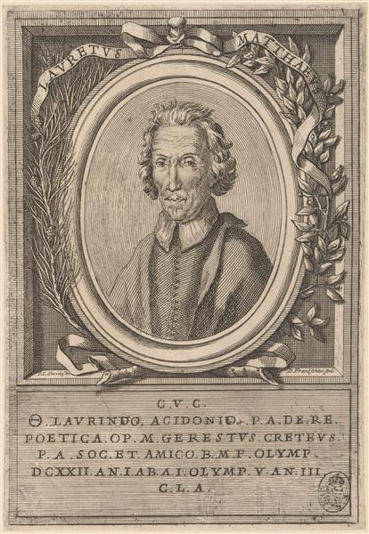 Portrait of Loreto Mattei (1622-1705), Italian literate from Rieti, taken from Le vite degli Arcadi illustri scritte da diversi autori by Giovanni Mario Crescimbeni, published in 1710 in Rome